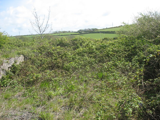 The interior of St Enghenedl Church Although rebuilt in the 19thC, this small church increasingly ran out of congregants after the building of a new church in nearby Valley. It was decided to demolish the church in the 1980s.